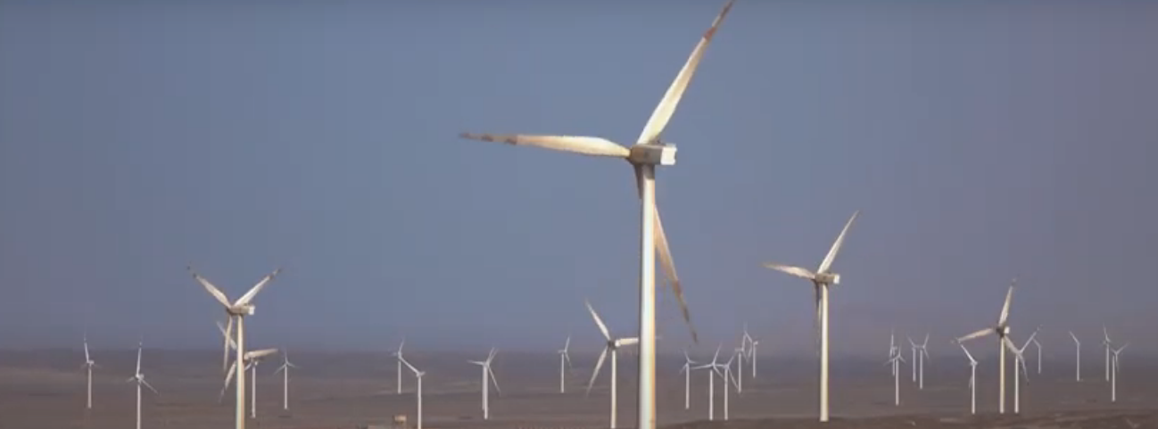 طواحين مزرعة رياح جبل الزيت